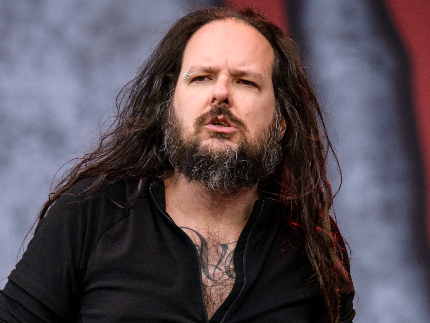 Jonathan Davis performing with Korn at Rock im Park 2016.